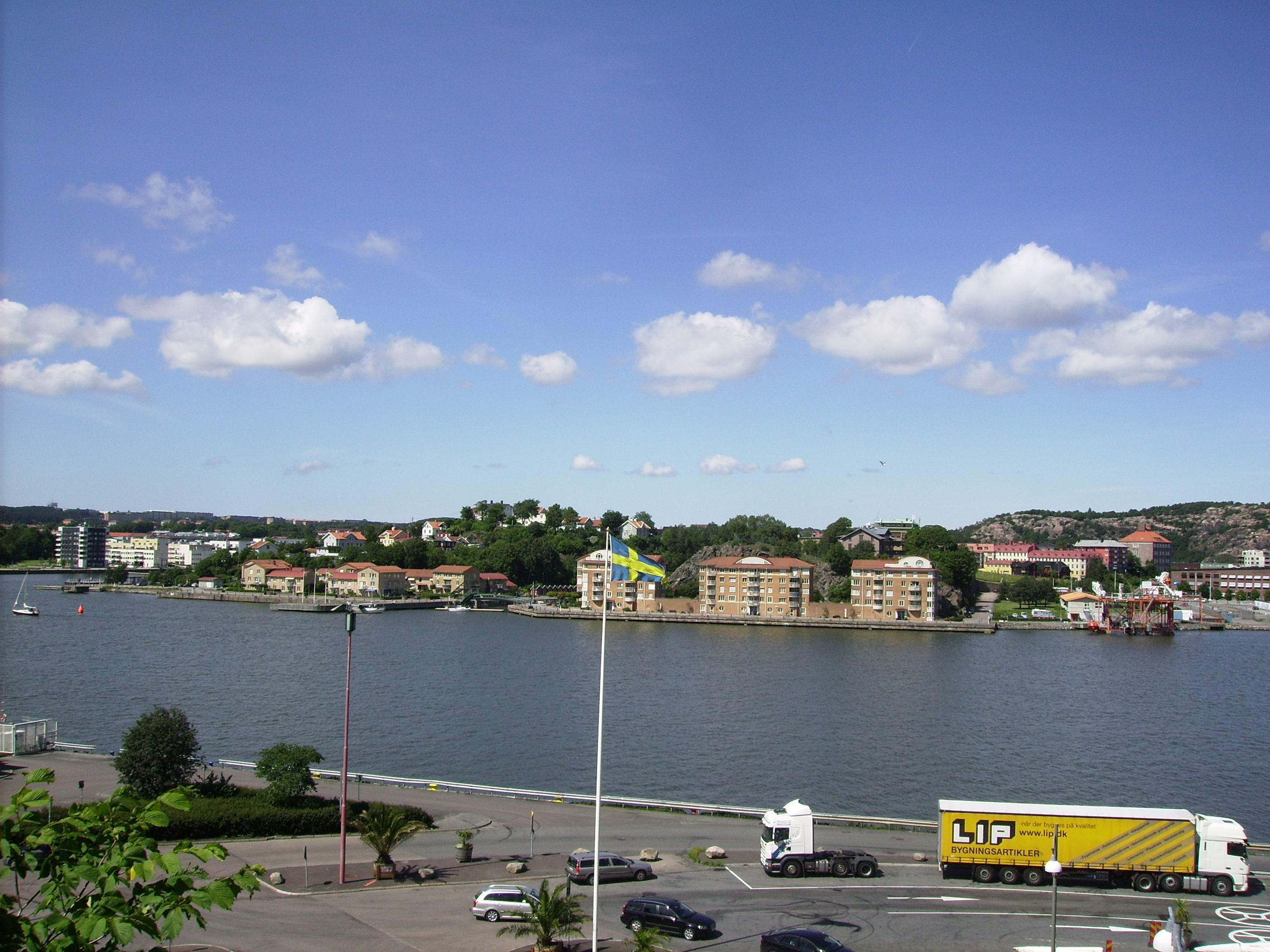 Picture of Stigbergskajen in Gothenburg.